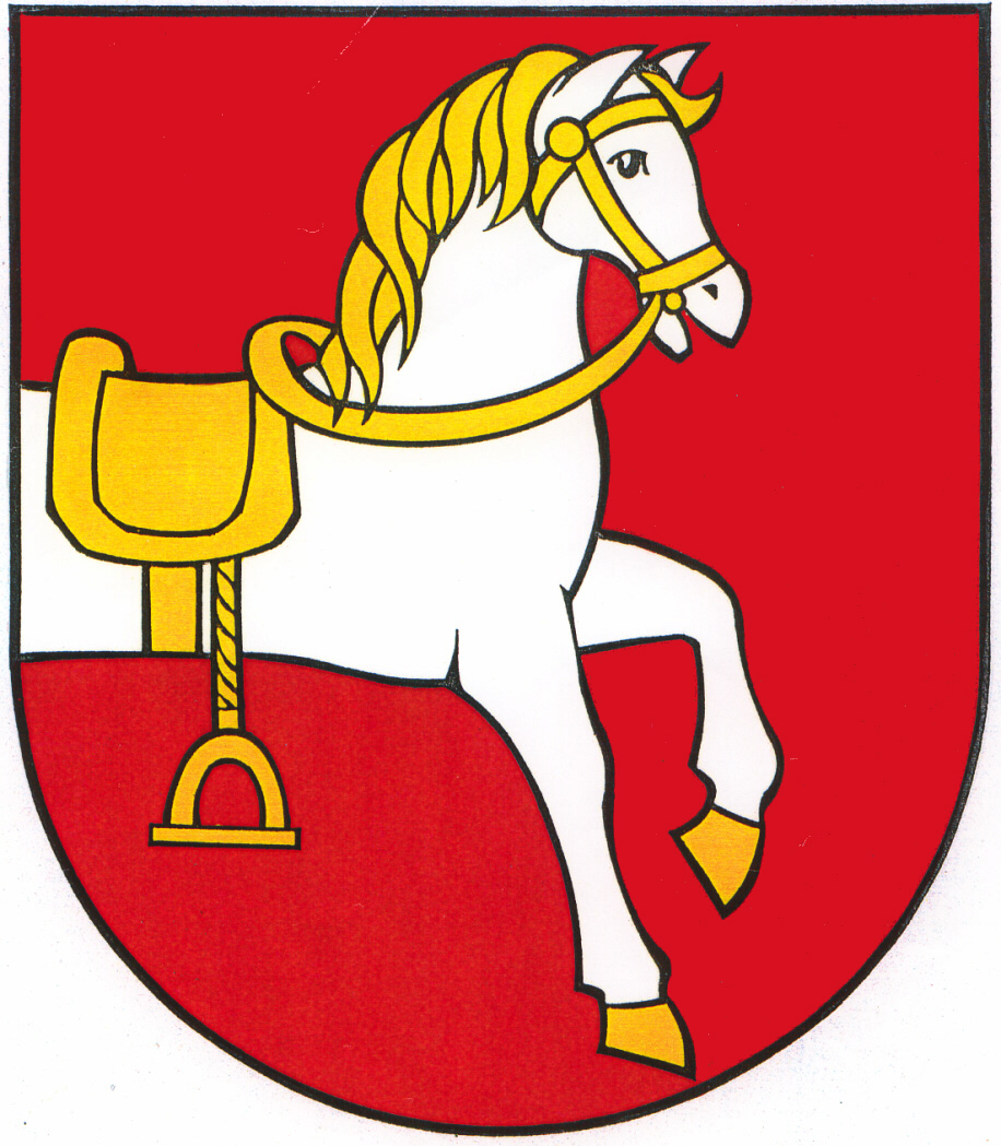 Coat of arms of Šintava, Slovakia